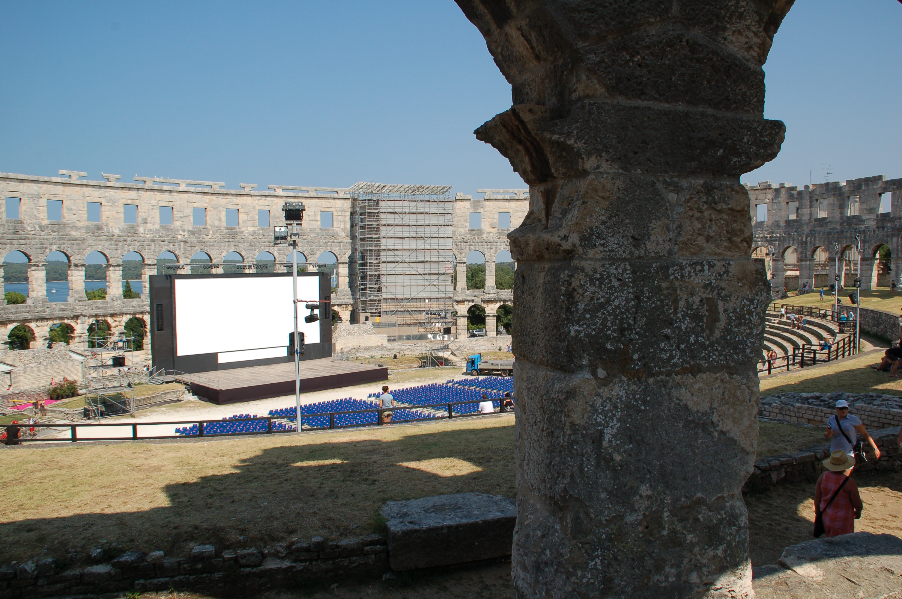 Film festivals Pula in the amphitheatre, Croatia, Istria, Pula